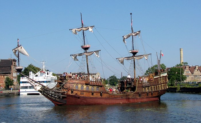 a fancy galleon in Gdańsk, Poland